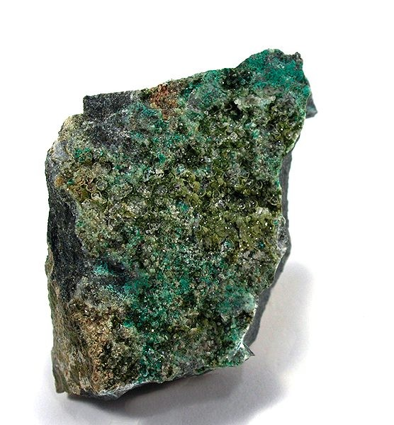 Mcguinnessite, Vuagnatite Locality: Copper King Mine, Red Mountain, Red Mountain District, Mendocino County, California, USA (Locality at ) Size: 6.7 x 4.1 x 2 cm. McGuinnessite is a very rare anhydrous copper carbonate, and this mine is the type locality. Ex. Marty Zinn and A.L. McGuiness Collections. Marty got this specimen FROM Collector and dealer A.L. McGuinness himself! Interestingly the label says only Vuagnatite on it, allowing for the possiblity that Marty got this from him before the species in his honor was actually identified and published in 1981. Tim Blackwood Collection.